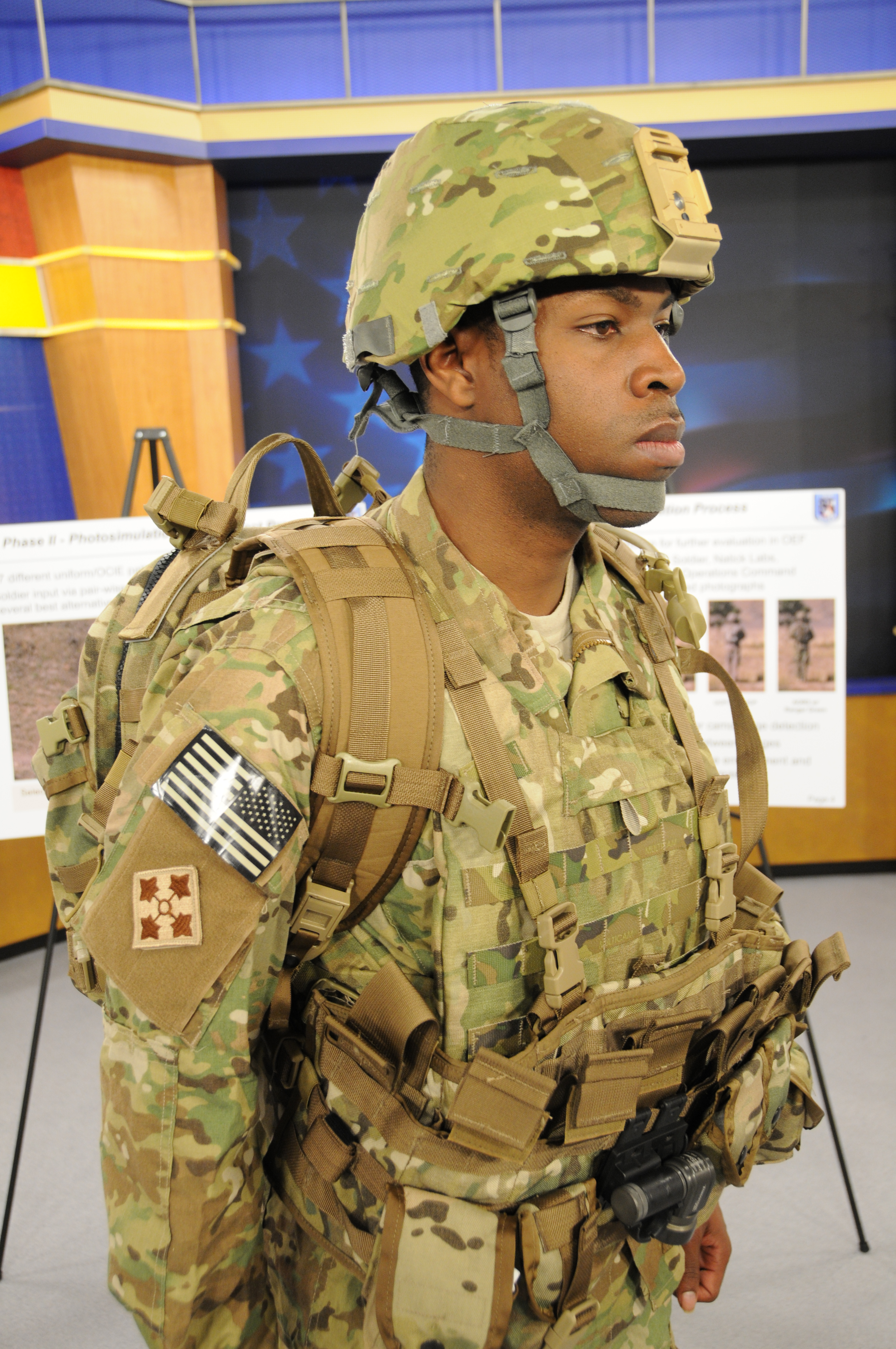 MultiCam ACU